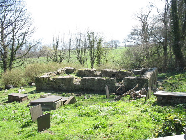 The ruins of Eglwys Gwenllwyfo These are the ruins of a medieval church, replaced by in 1856 by a church of the same name in SH4789. The graves in the old churchyard date before the 1850s.